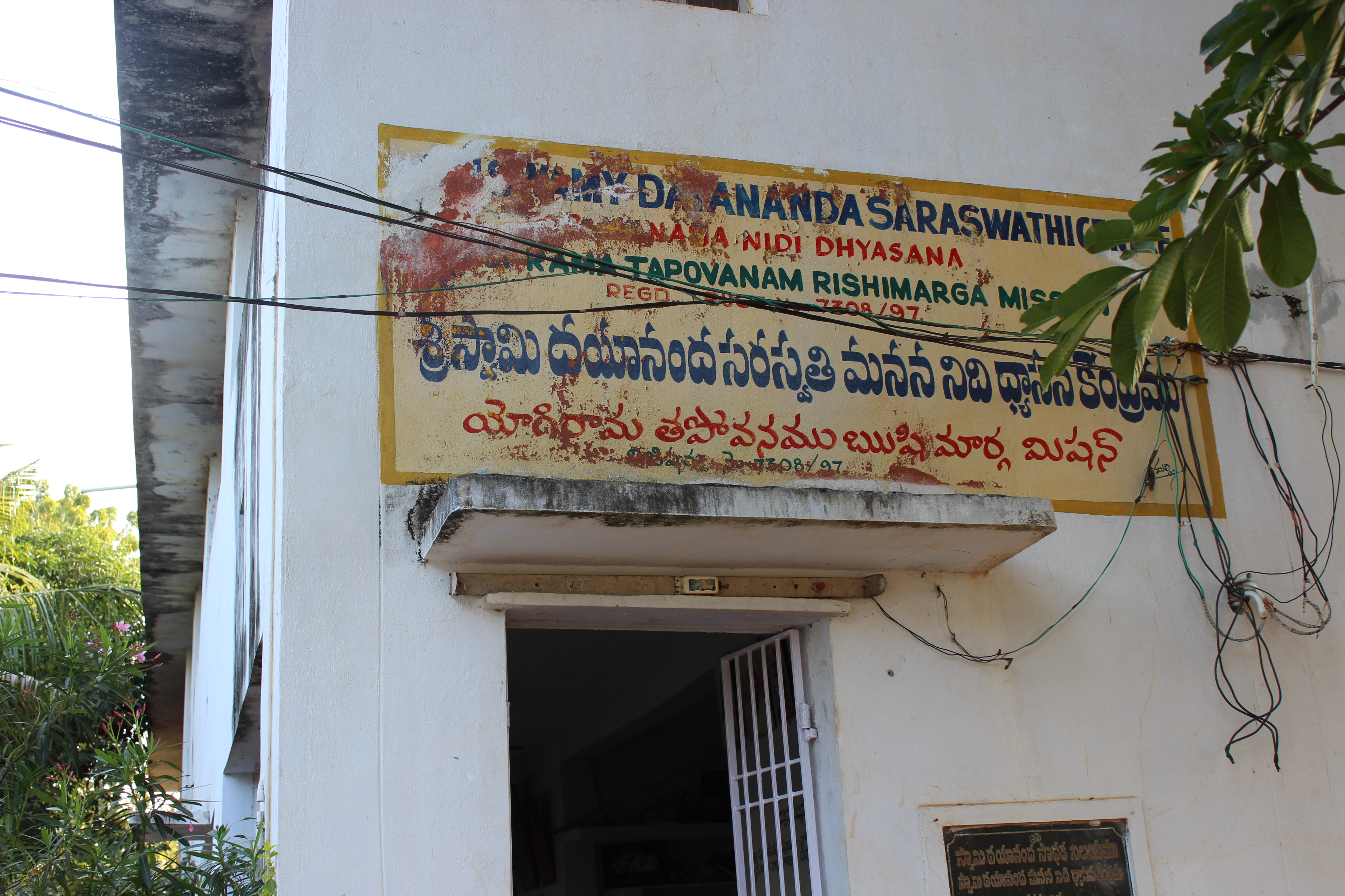 Yogi Ramaiah Asramam , Anna Reddy Palem, Nellore Dist